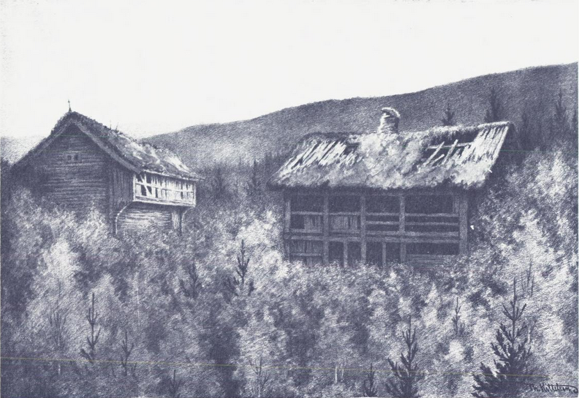 Ødegård, painting by the Norwegian artist Theodor Kittelsen. An "Ødegård" (desolate farm) was a farm that was abandoned in the late middle ages, mainly because of the depopulation due to the black death.